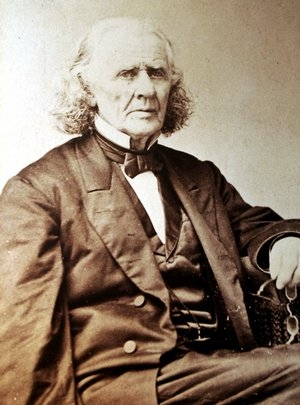 Reuben H. Walworth, US Representative from New York and last Chancellor of New York